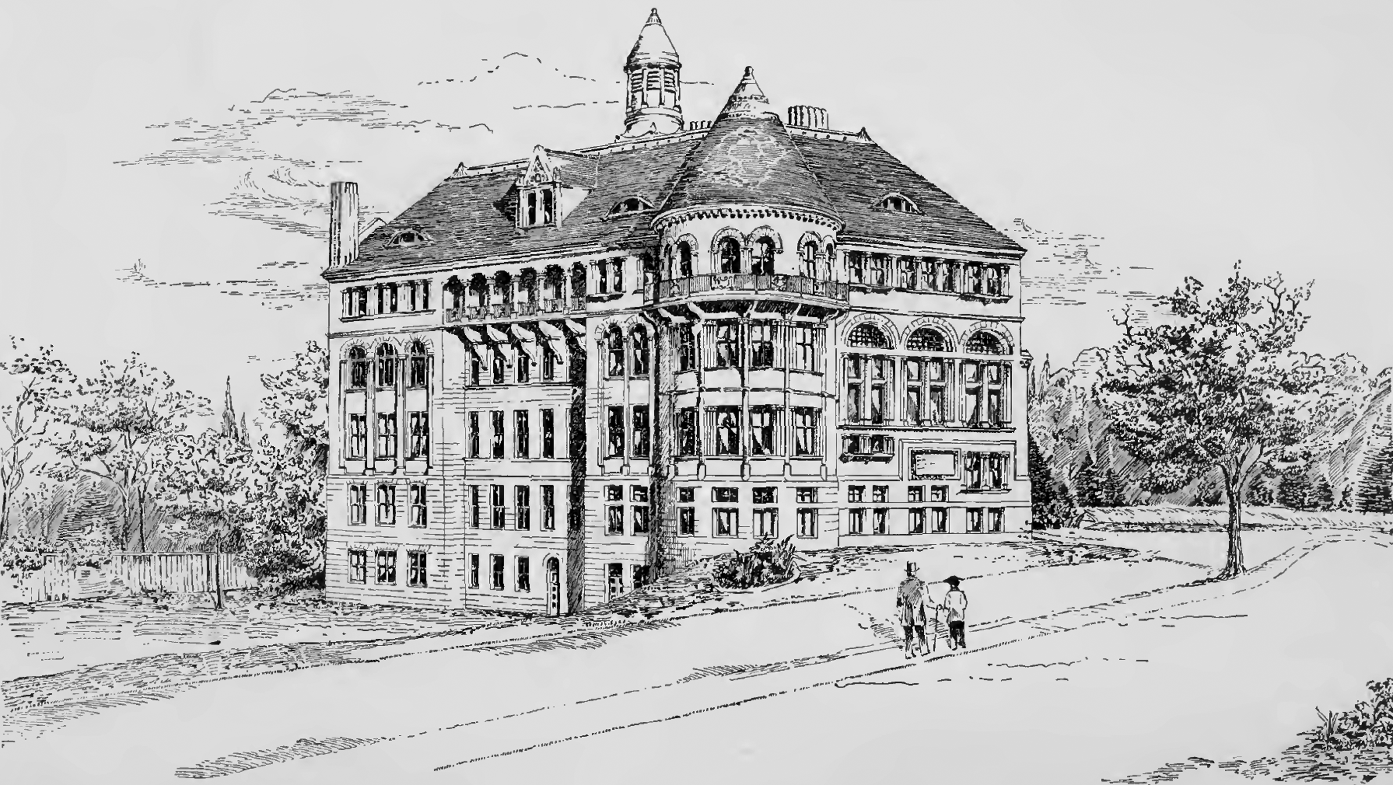 Physics Building at McGill University, about 1893